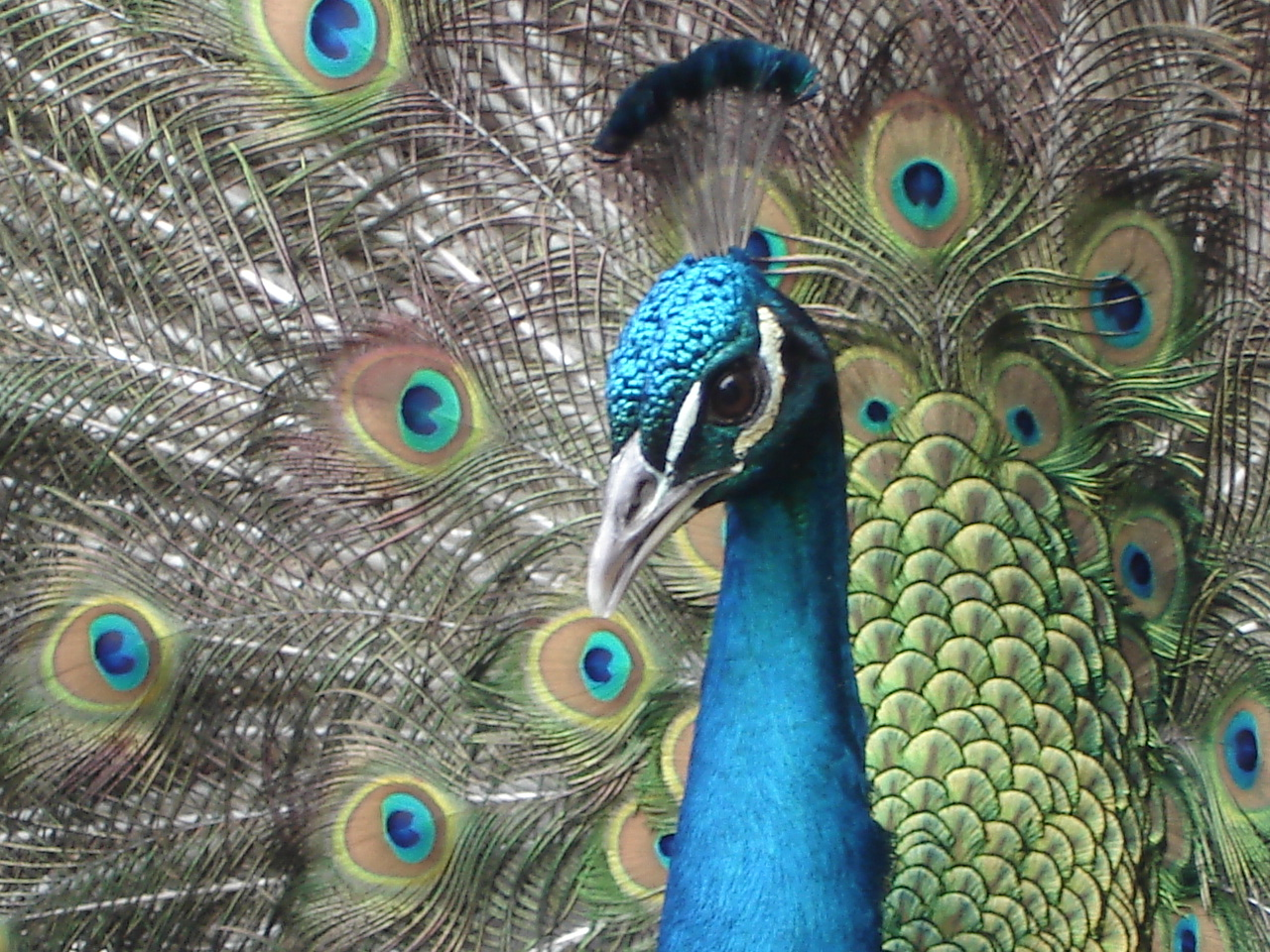 This photo shows the head of a peacock fom a short distance. It has been taken by me on a farm near Margaret River, Western Australia, in August 2005.